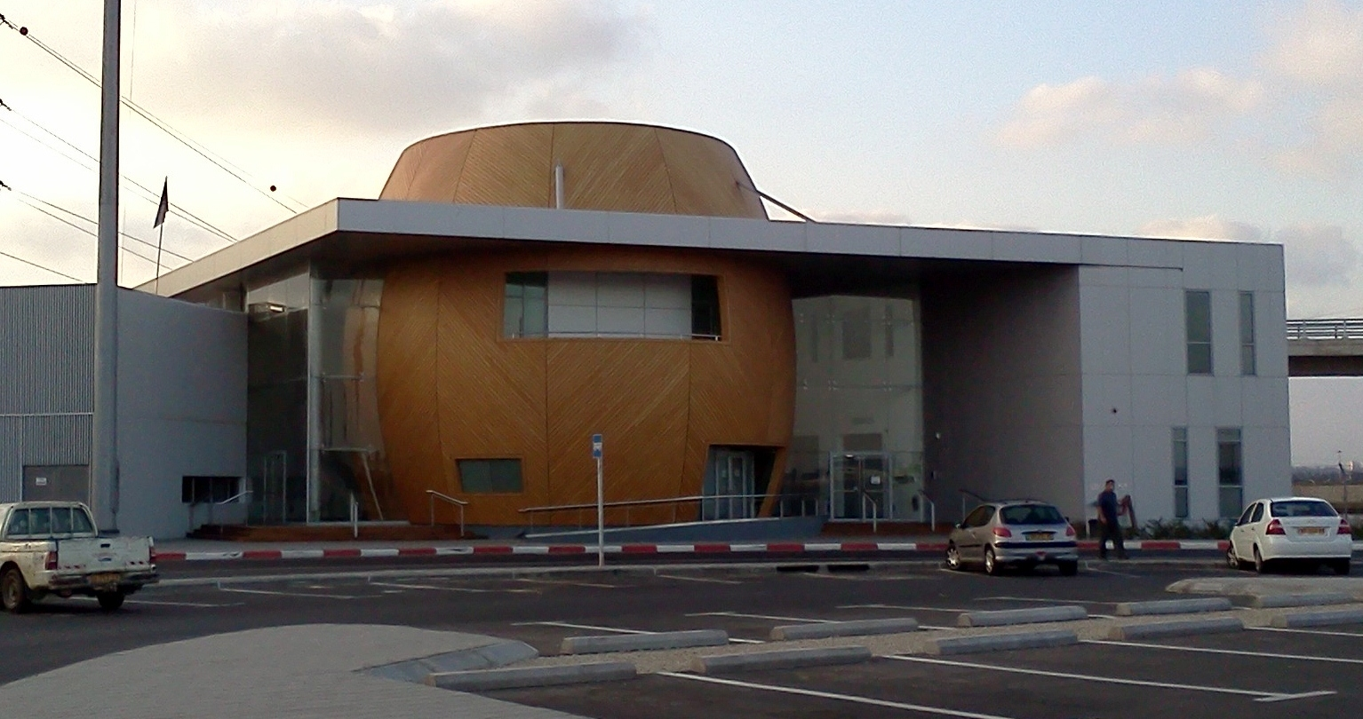 Management building on highway 1 of fast lane company, Israel